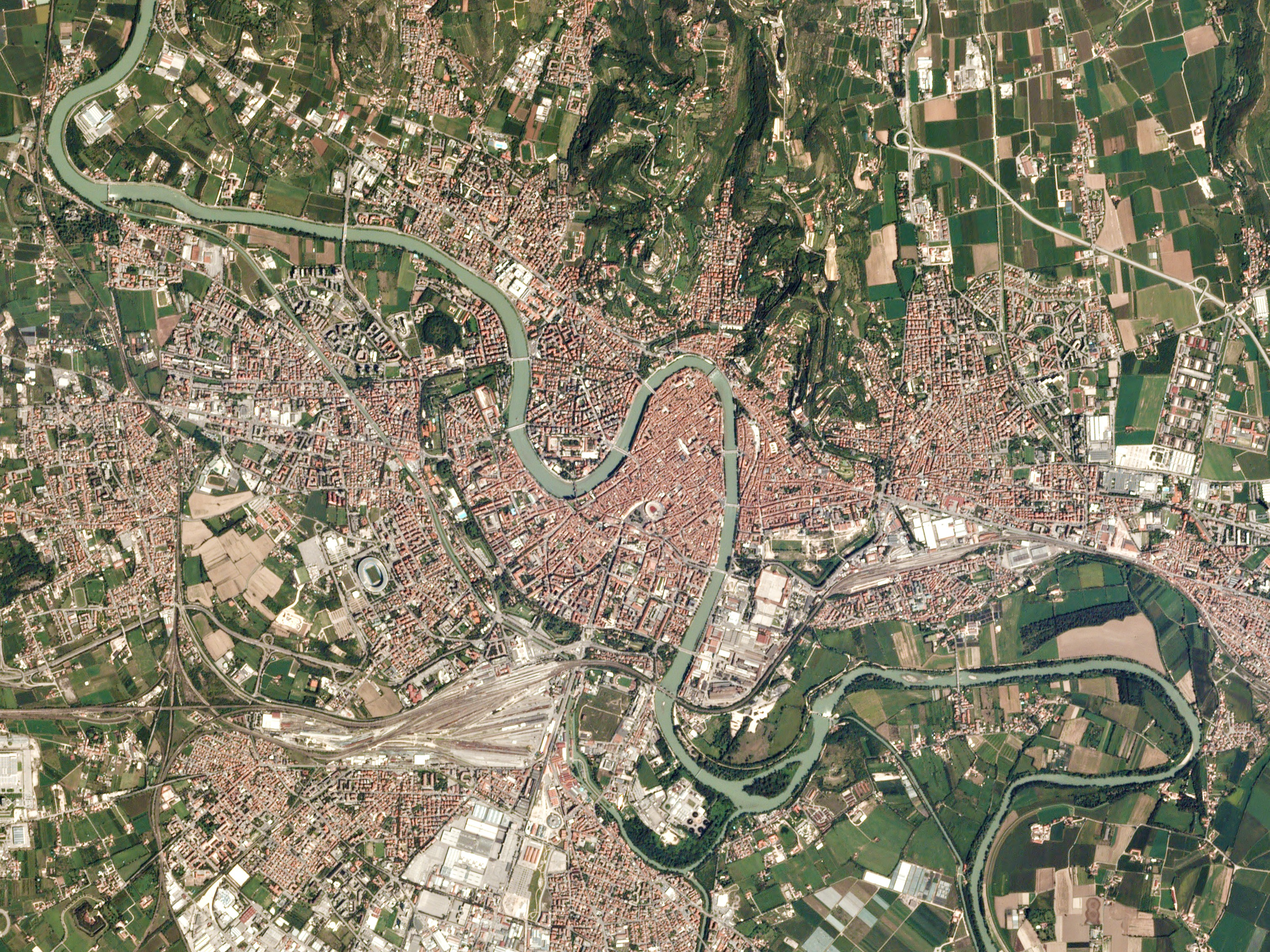 Verona Italy August 17, 2016 The Adige River winds through Verona, Italy—a city that has endured through the ages. The Verona Arena (an ancient Roman amphitheater), Romanesque basilicas, and medieval churches mingle in Verona’s city center.